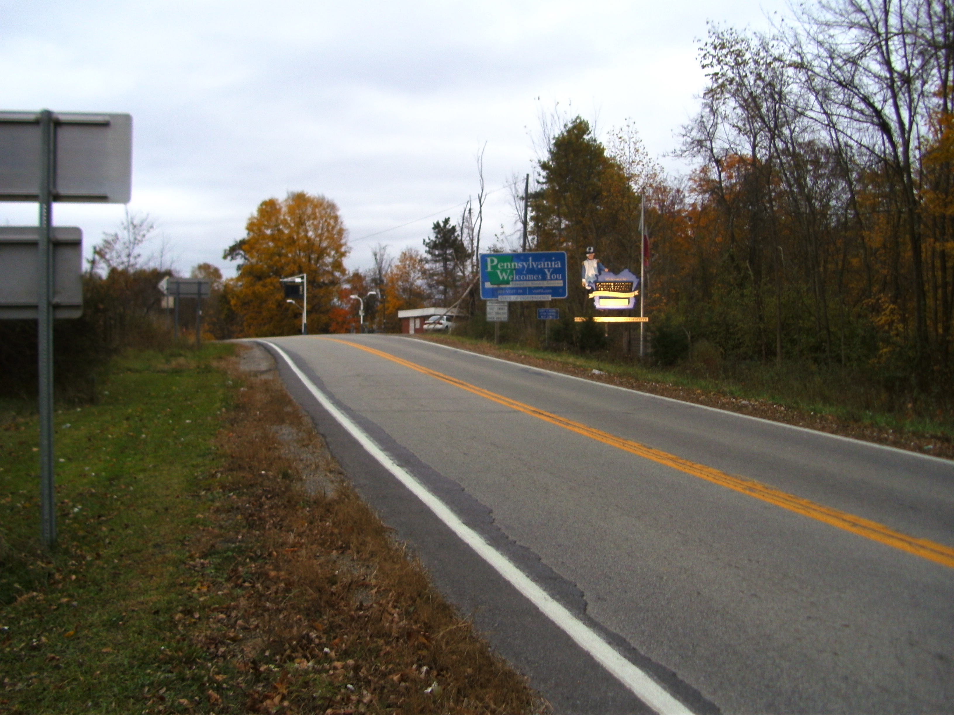 U.S. Route 119 heads north into Pennsylvania near Point Marion in Fayette County.